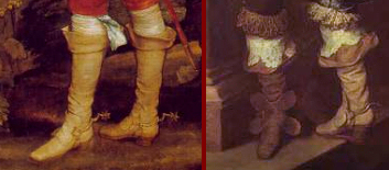 Detail of Boots and Boot hose from portraits by Van Dyck